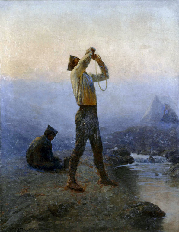 Soldier drinking waterTürkçe: Yunanların gözünden Türk Kurtuluş Savaşı'nın Batı Cephesi ("Küçük Asya Felaketi")